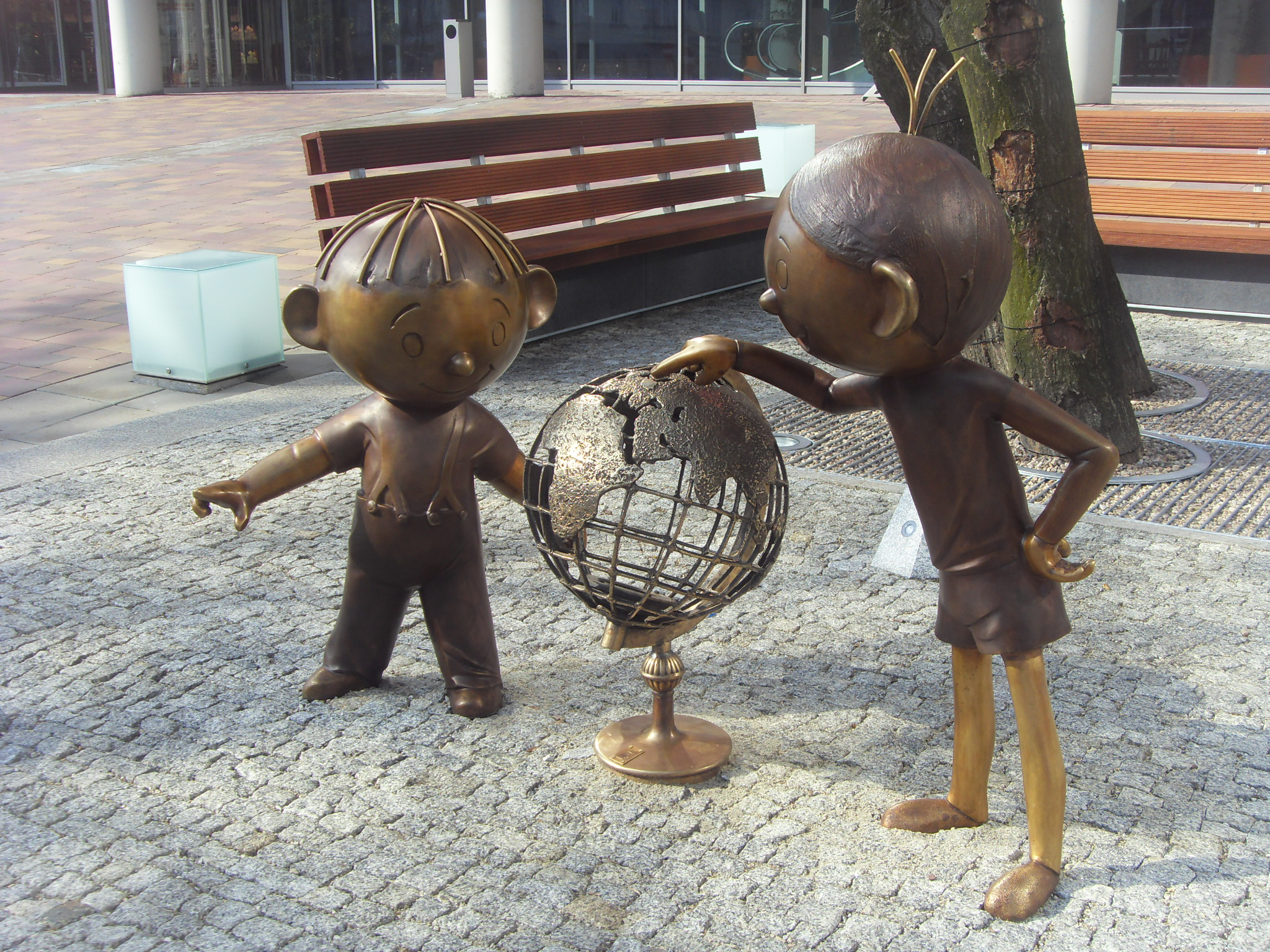 Bolek and Lolek monument in Bielsko-Biała